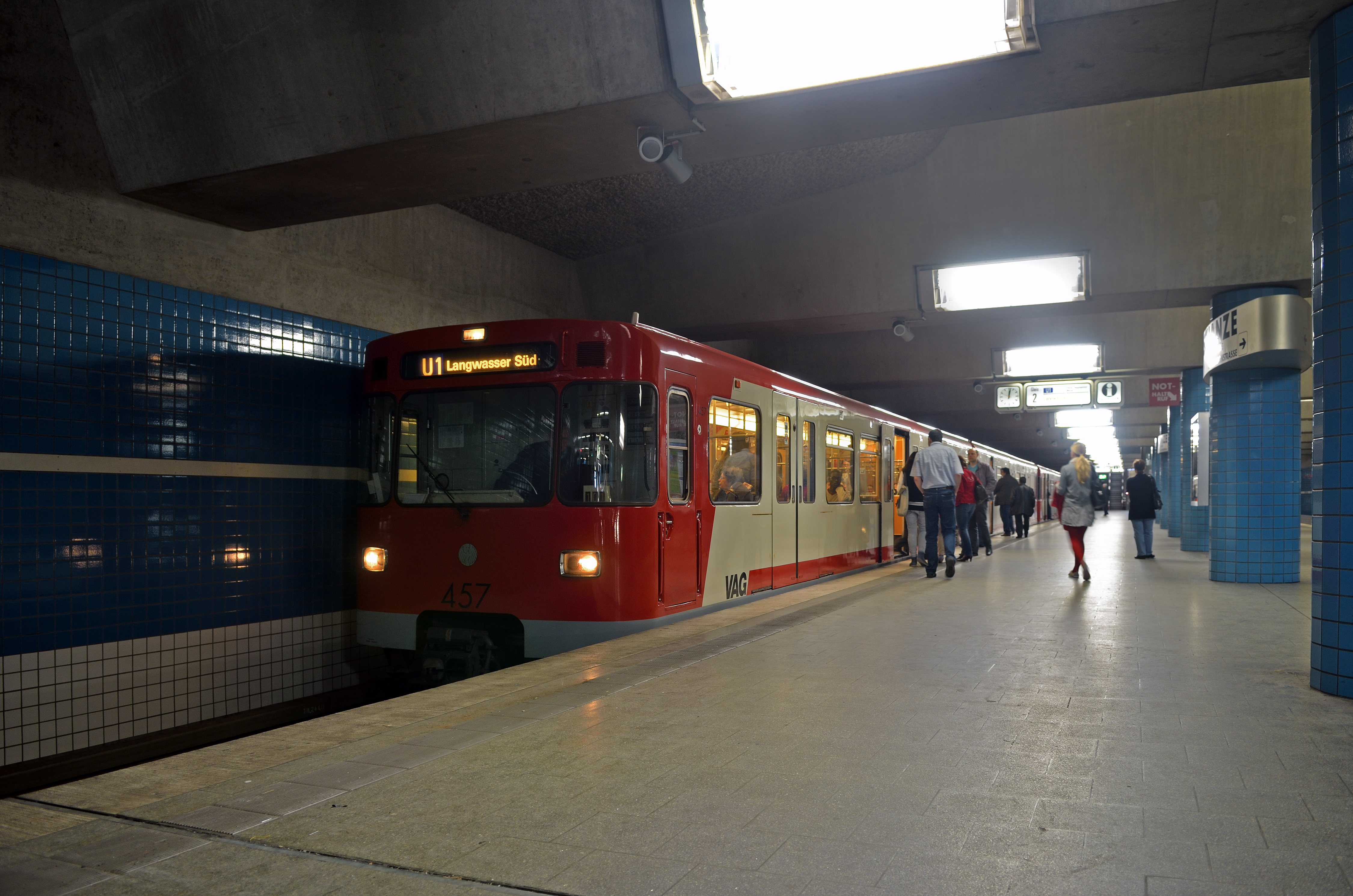 the subway station "Bärenschanze" in Nuremberg